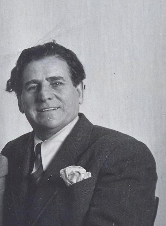 Petar Raychev, Berlin, 1939.